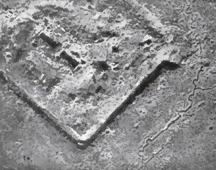 Air photograph of Fort de la Malmaison, 1917